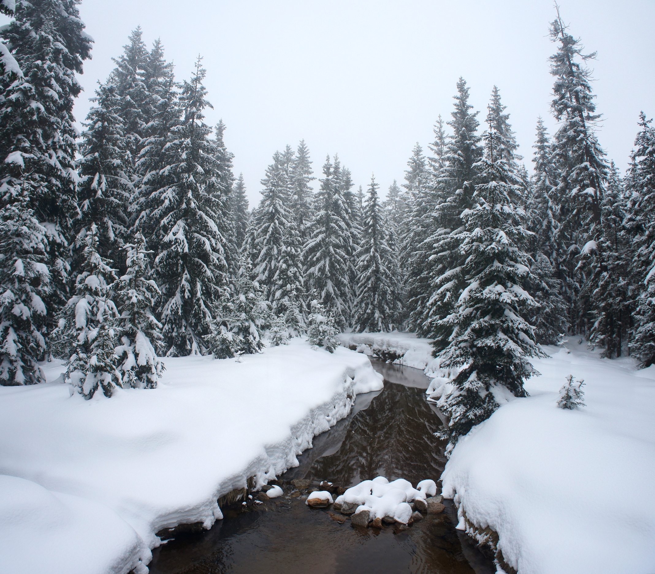 The Blatný potok near its entry into the Blatný rybník (Liberec Region, Czechia).